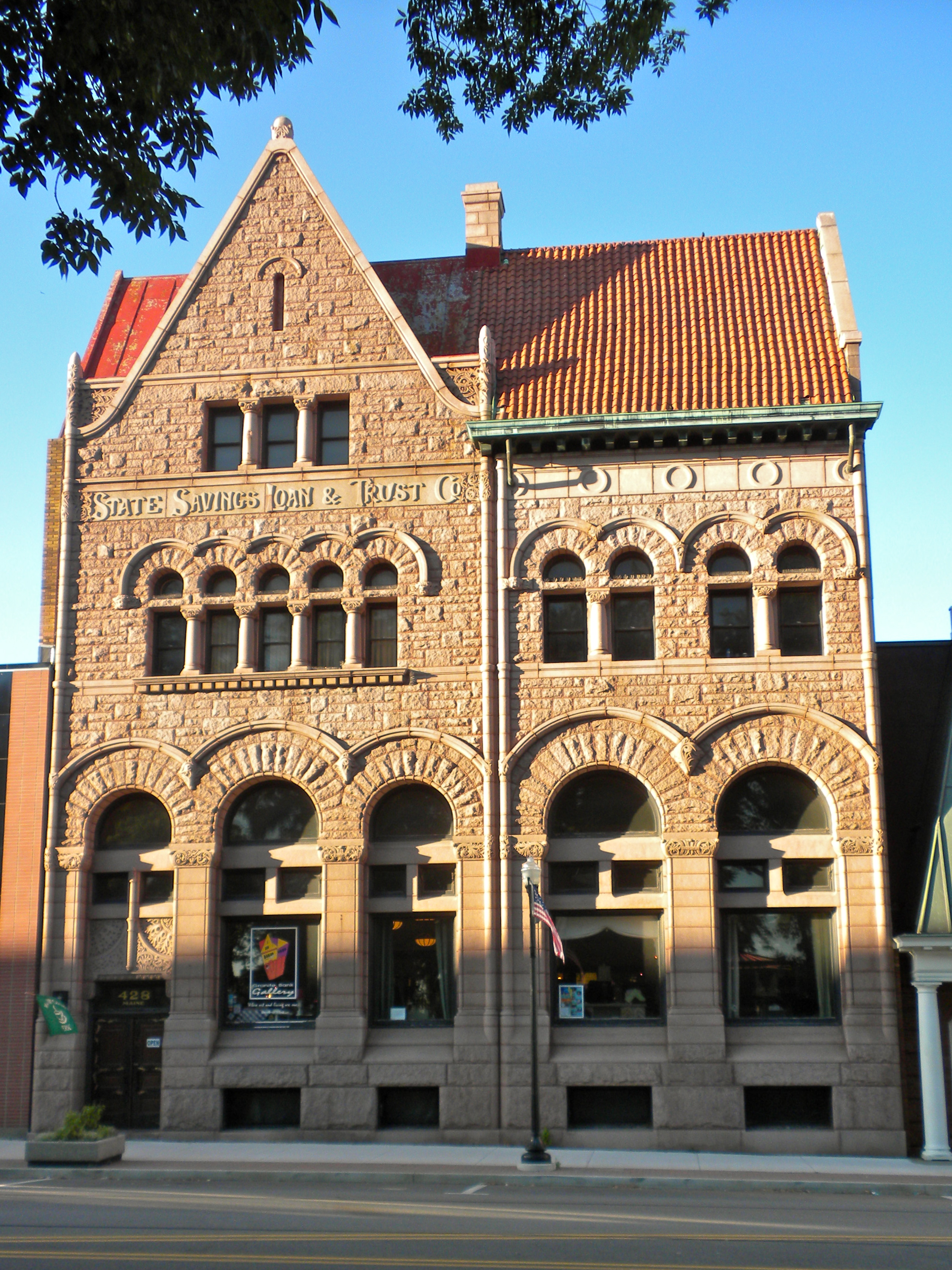 State Savings Loan and Trust on NRHP since March 23, 1979. At 428 Maine St., Quincy, Illinois. Also within the Downtown Quincy Historic District.